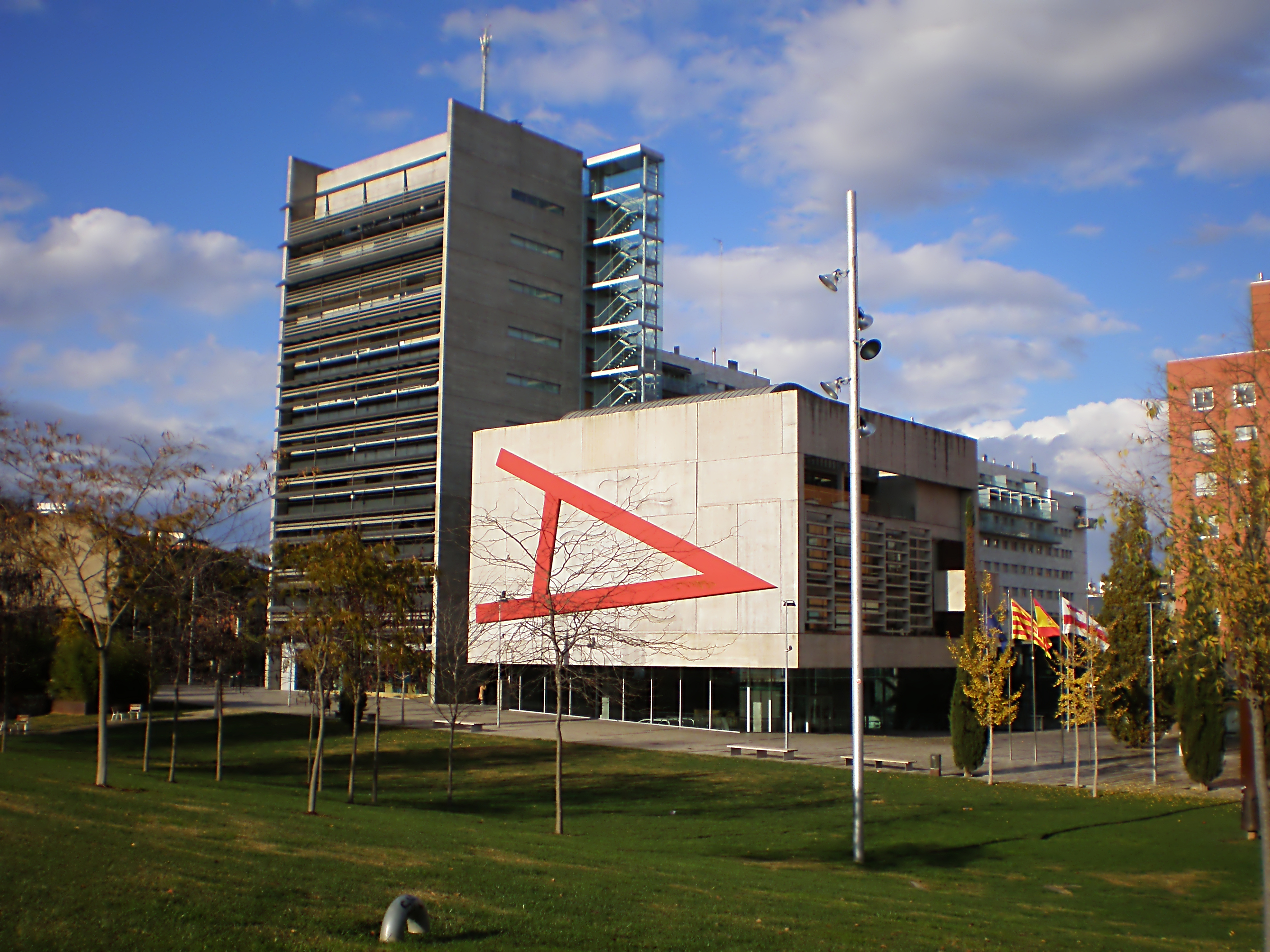 The City Hall of Mollet del Vallès (Catalonia, Spain). A ajaguda amb peix (Lying A with a fish) of Joan Brossa.